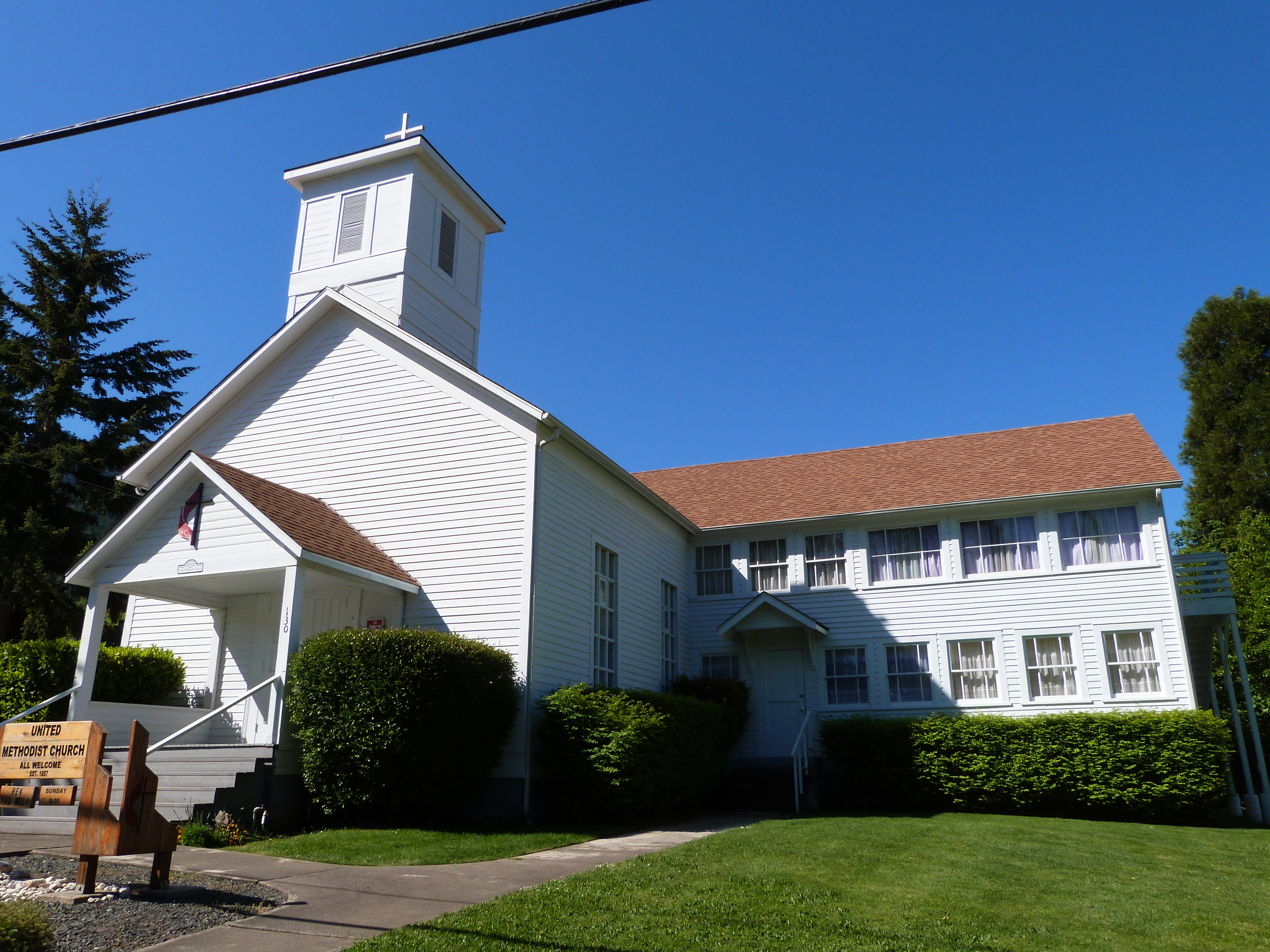 The historic Canyonville Methodist Church (built 1868), located at the intersection of Southwest 2nd Street and Southwest Pine Avenue in Canyonville, Oregon, United States, is listed on the US National Register of Historic Places.